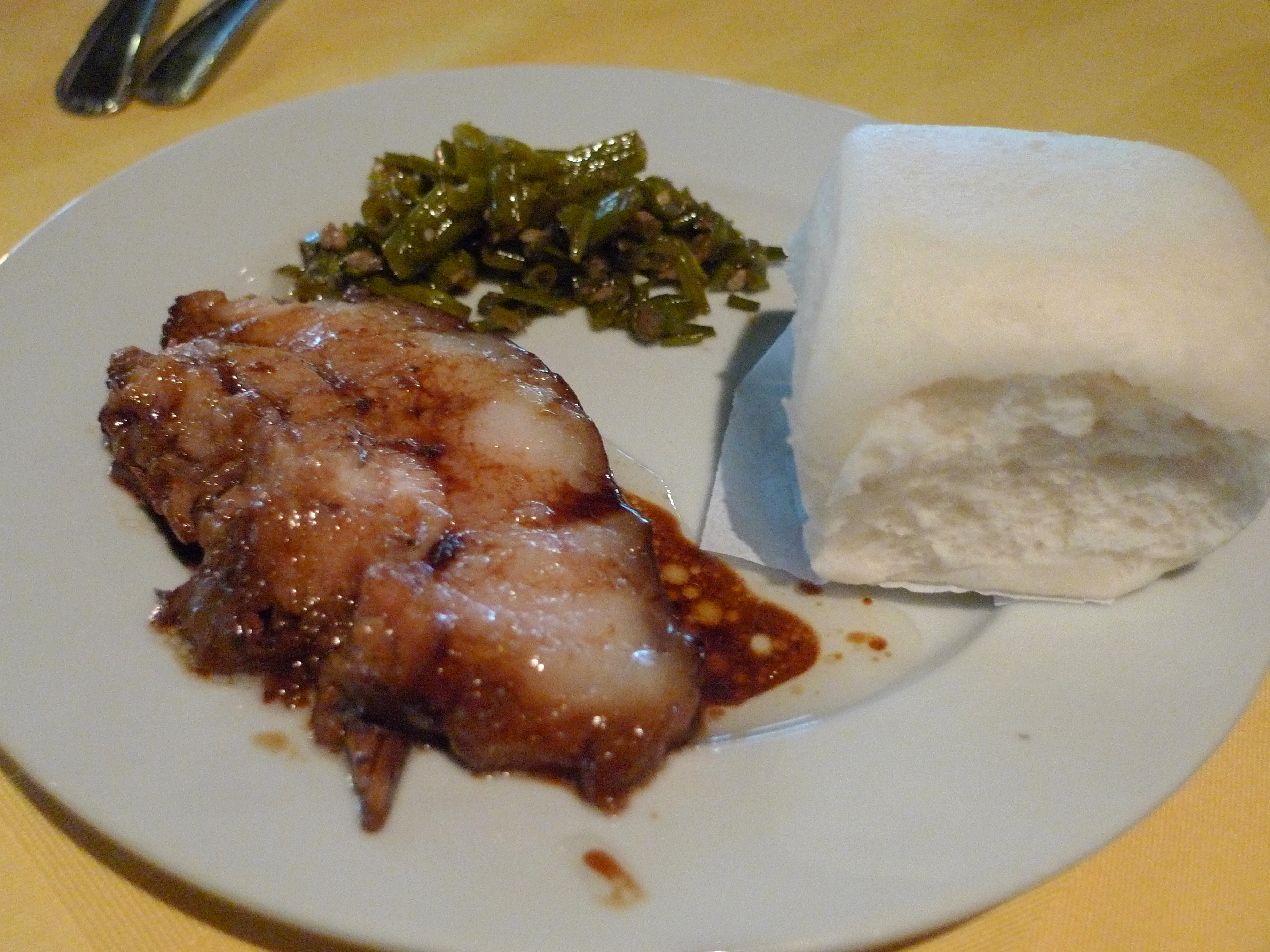 Pampanga Prado Farm - Pata Tim